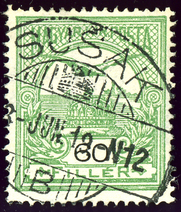 Kingdom of Hungary issue July 1908 stamp, 60 fillér (green SG167), cancelled SUŠAK in June 1913 (Croatia-Slavonia). Michel N°104